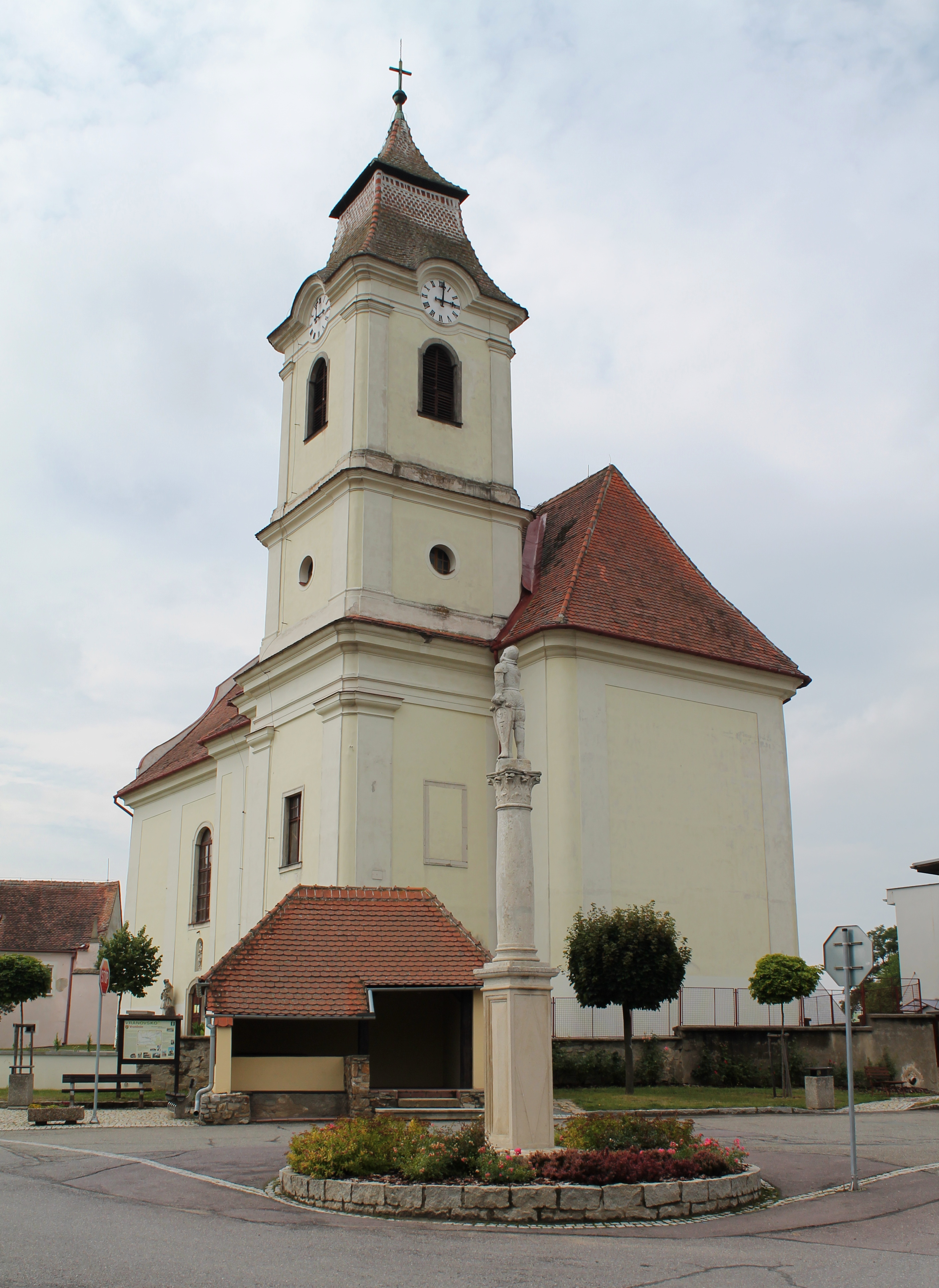 Church of Saint James the Greater, Vratěnín, Znojmo District, Czech Republic